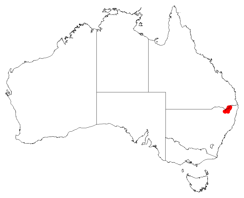 Acacia macnuttiana Occurrence data from Australasia Virtual Herbarium downloaded from on 8 December 2018